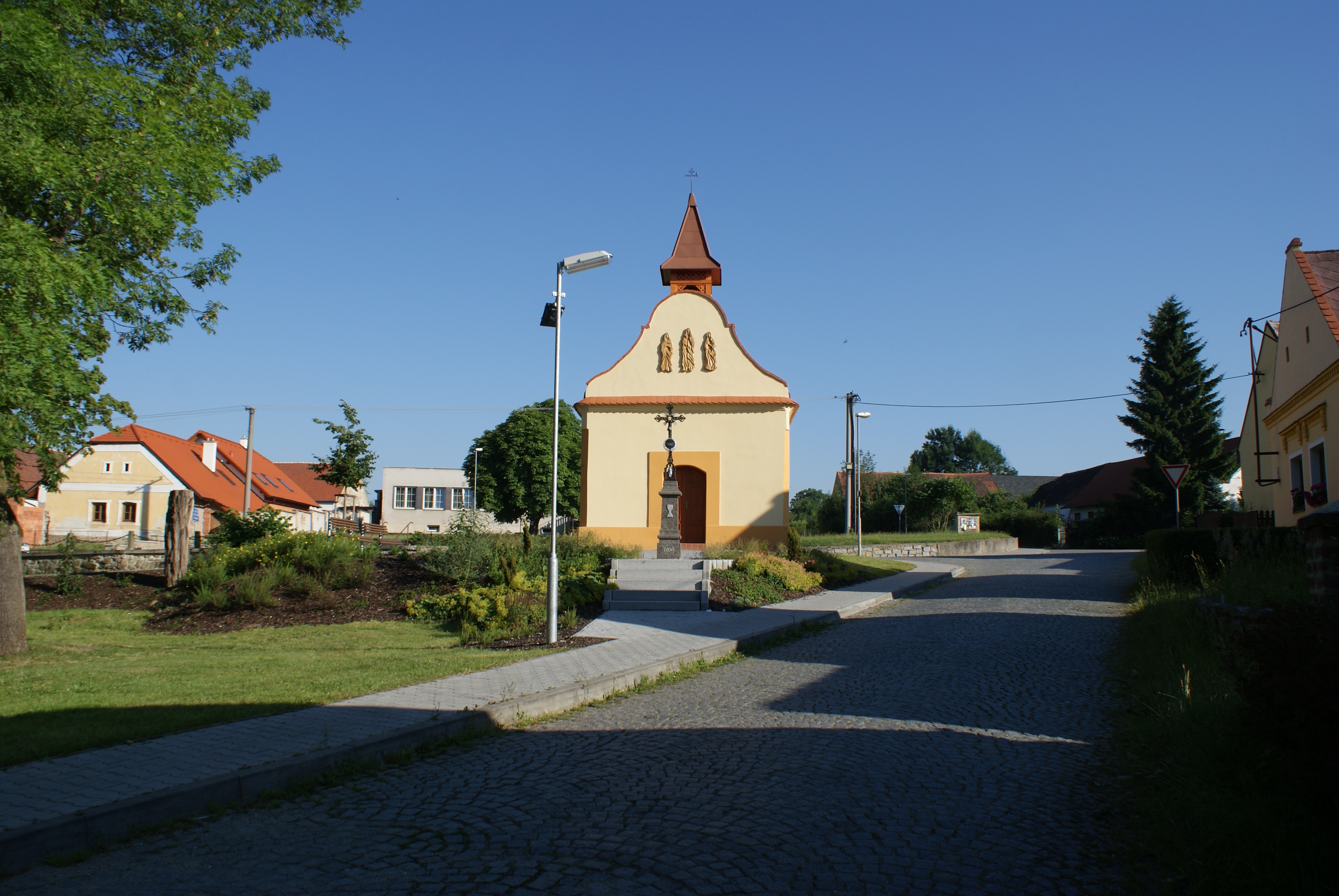 Cehnice, a village in Strakonice district, Czech Republic. A chapel on the village common. Česky: Cehnice, okres Strakonice, kaplička na návsi